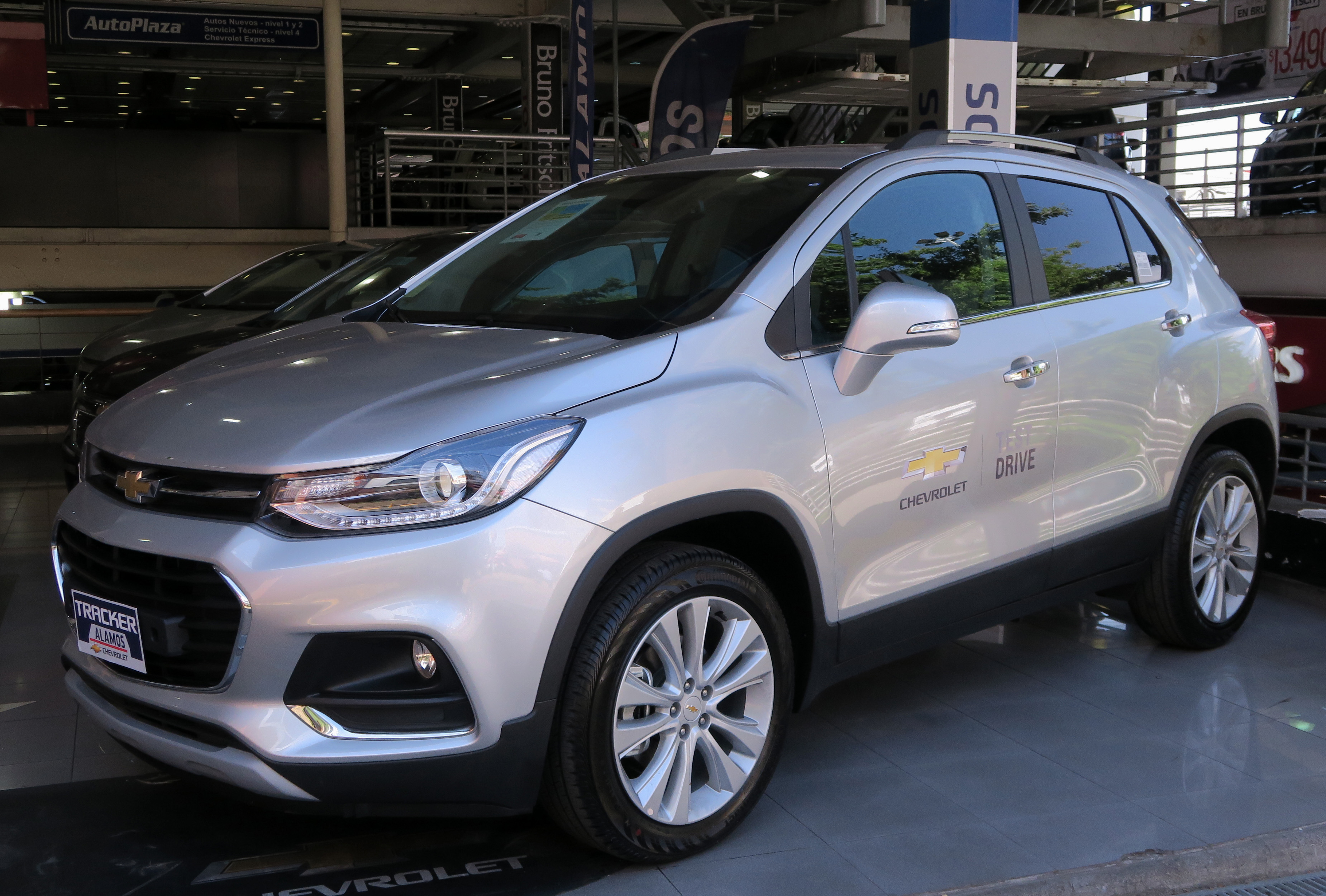 Chevrolet Tracker 1.8 LT AWD 2017